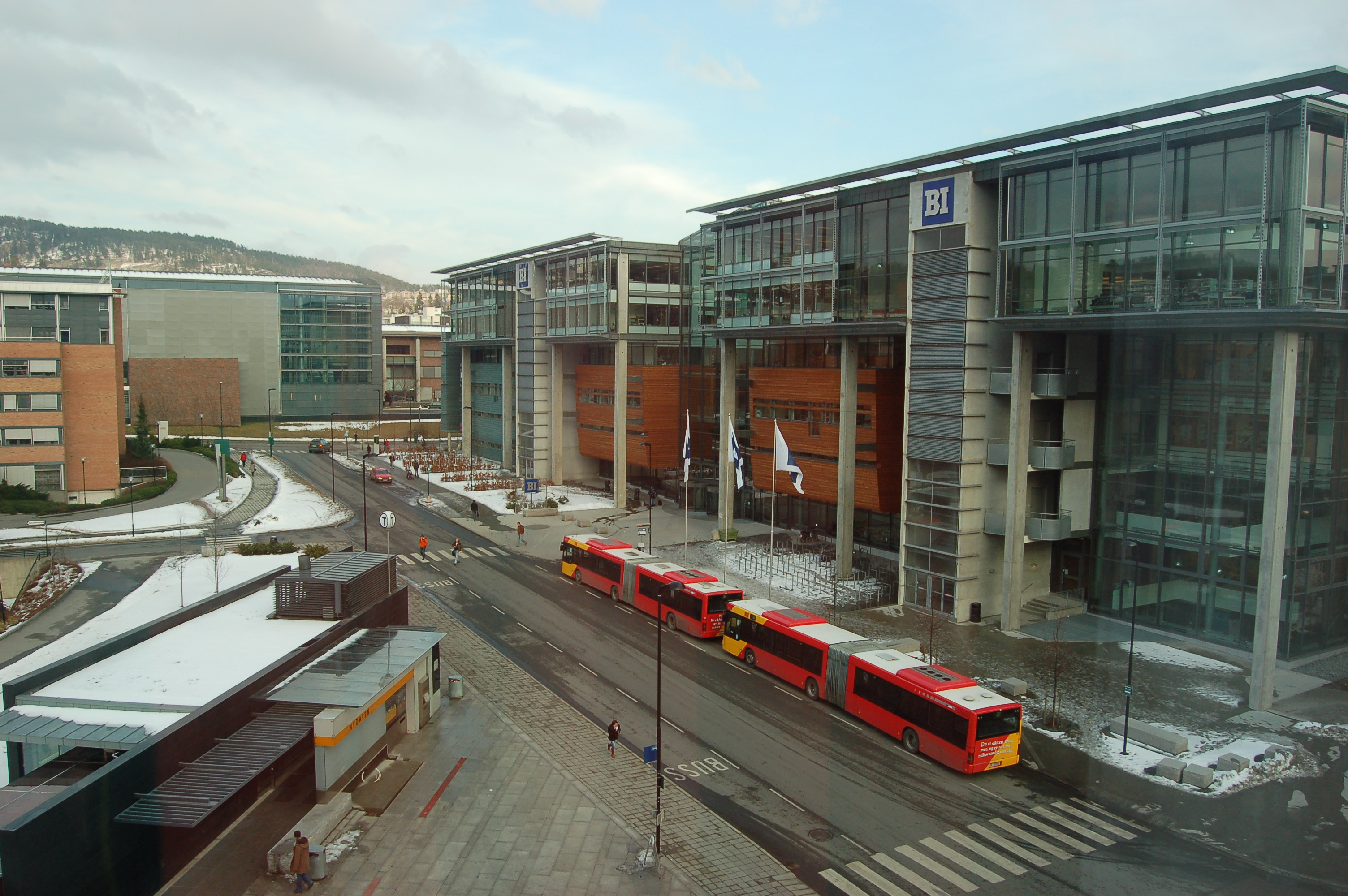 Nydalen T-bane station and the Norwegian School of Management (BI), Oslo, Norway.